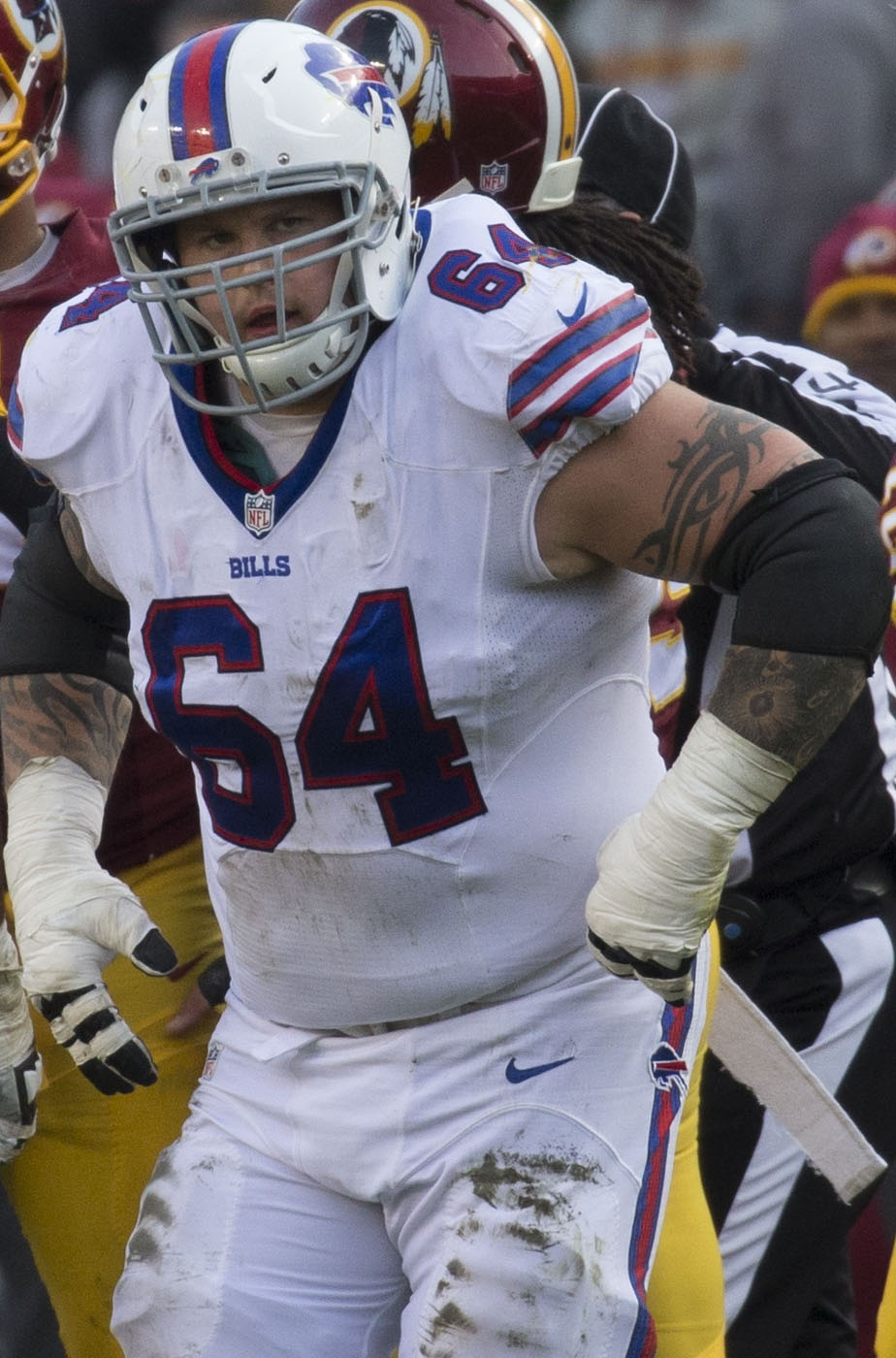 Bills at Redskins 12/20/15